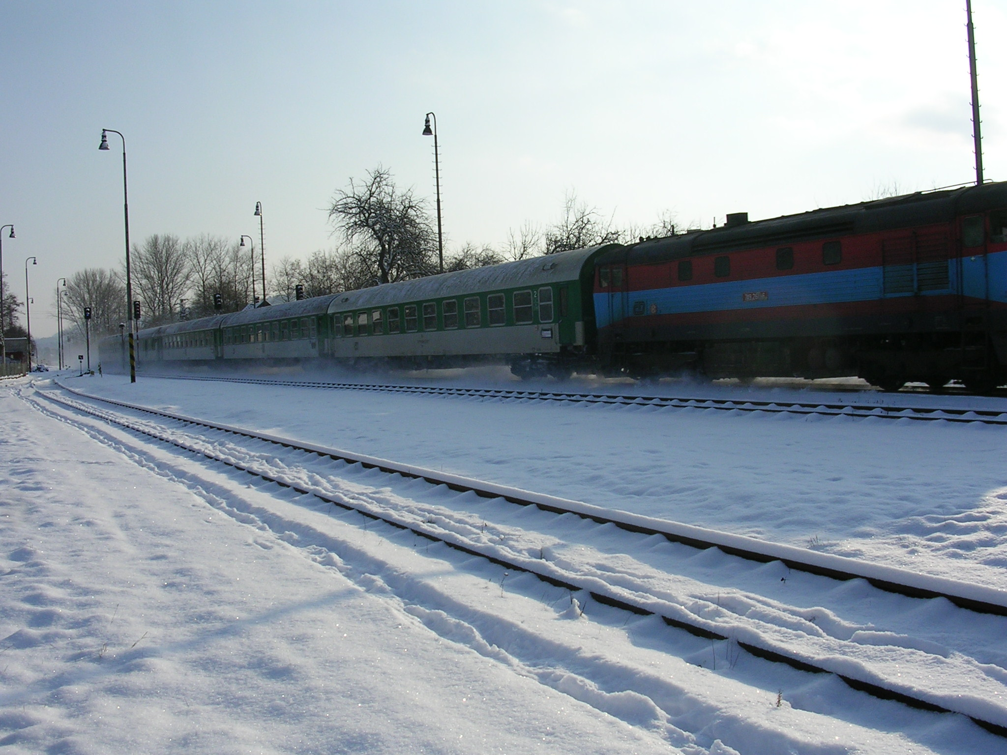 Kostelec nad Orlicí, the Czech Republic. A train station.